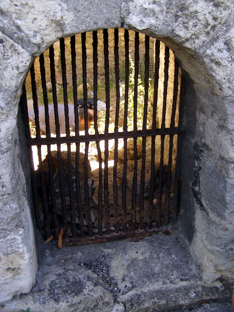 Archaeological excavation under way at the Castle Watergate, Southampton. Normally you can pass through the Castle Watergate from Western Esplanade, but on this occasion the gate was shut due to an archaeological excavation. The Watergate was built in the late 14th century to limit access from Castle Quay into the interior of the castle. The tidal waters are now about half a kilometre away, a consequence of land reclamation from the mid-nineteenth century onwards.